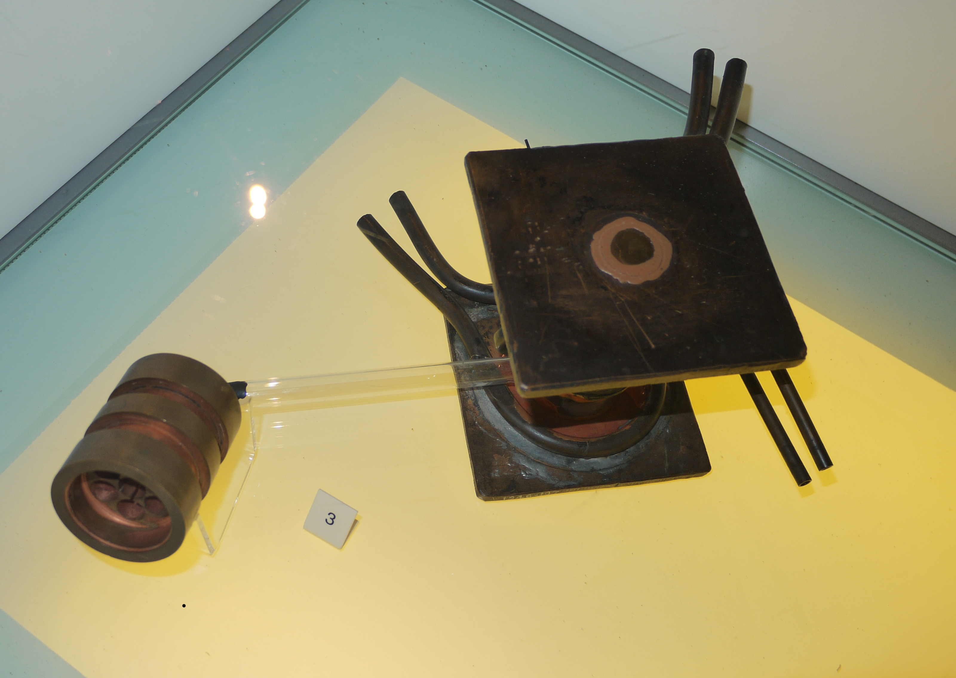 Photo of the original Randall and Boot cavity magnetron